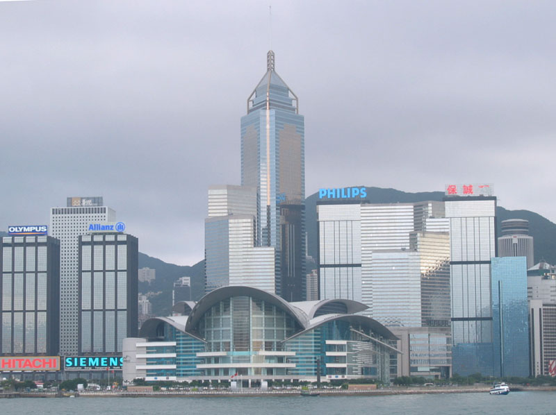 Victoria Harbour, Hong Kong